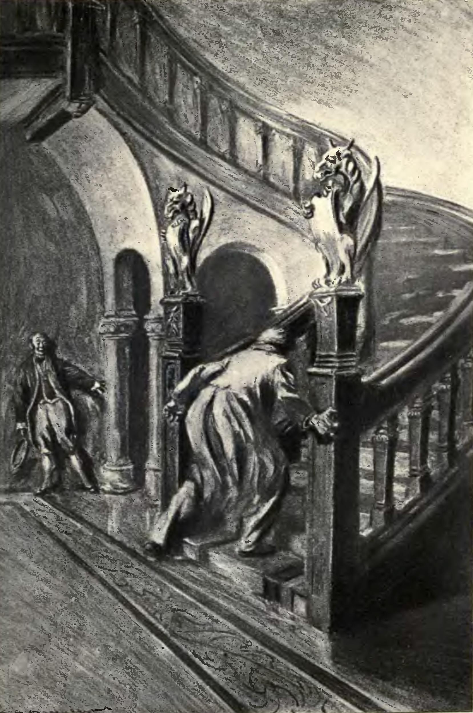 Artwork by Charles Raymond Macauley for the 1904 edition of The strange case of Dr. Jekyll and Mr. Hyde by Robert Louis Stevenson. Publisher: New York Scott-Thaw